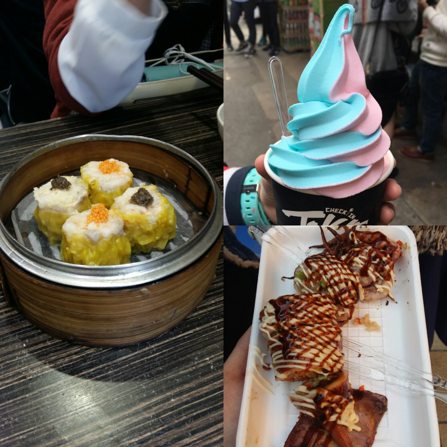 Photos taken by Ellie Fan